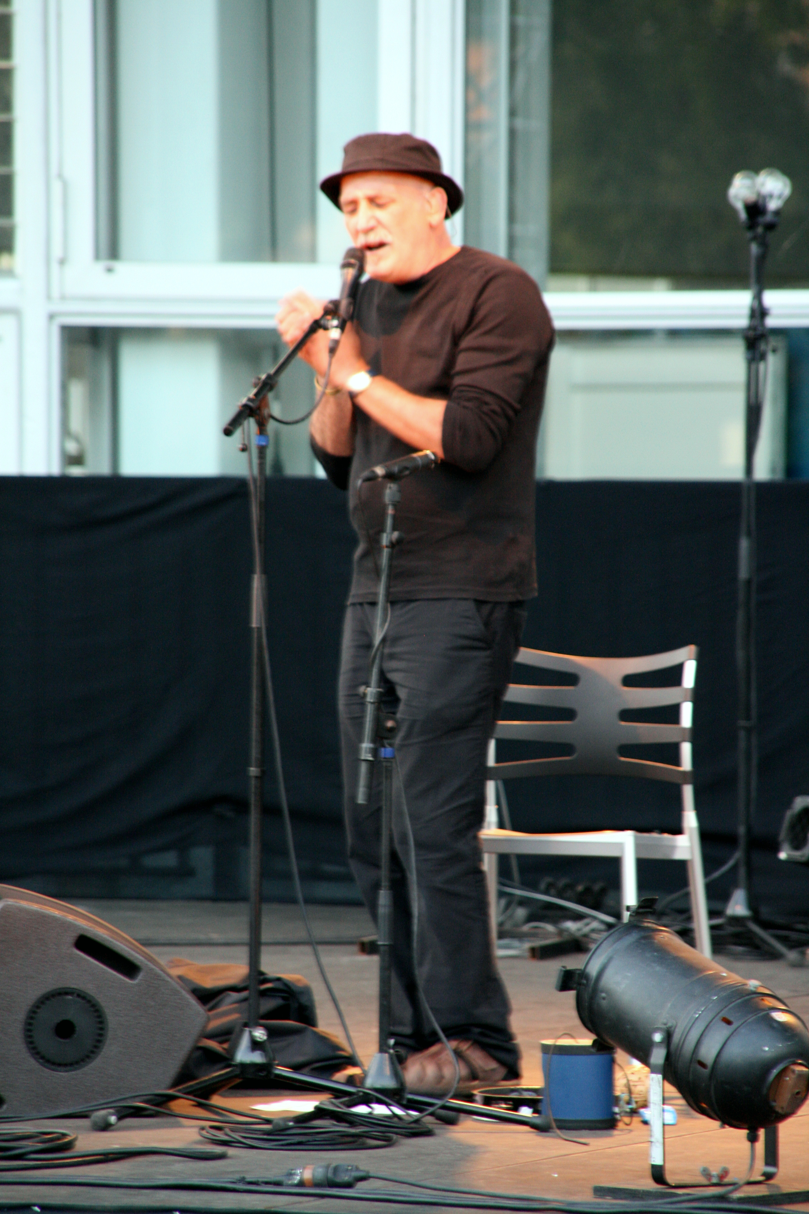 French singer André Minvielle. Concert in Angers, France, during Temporives festival.